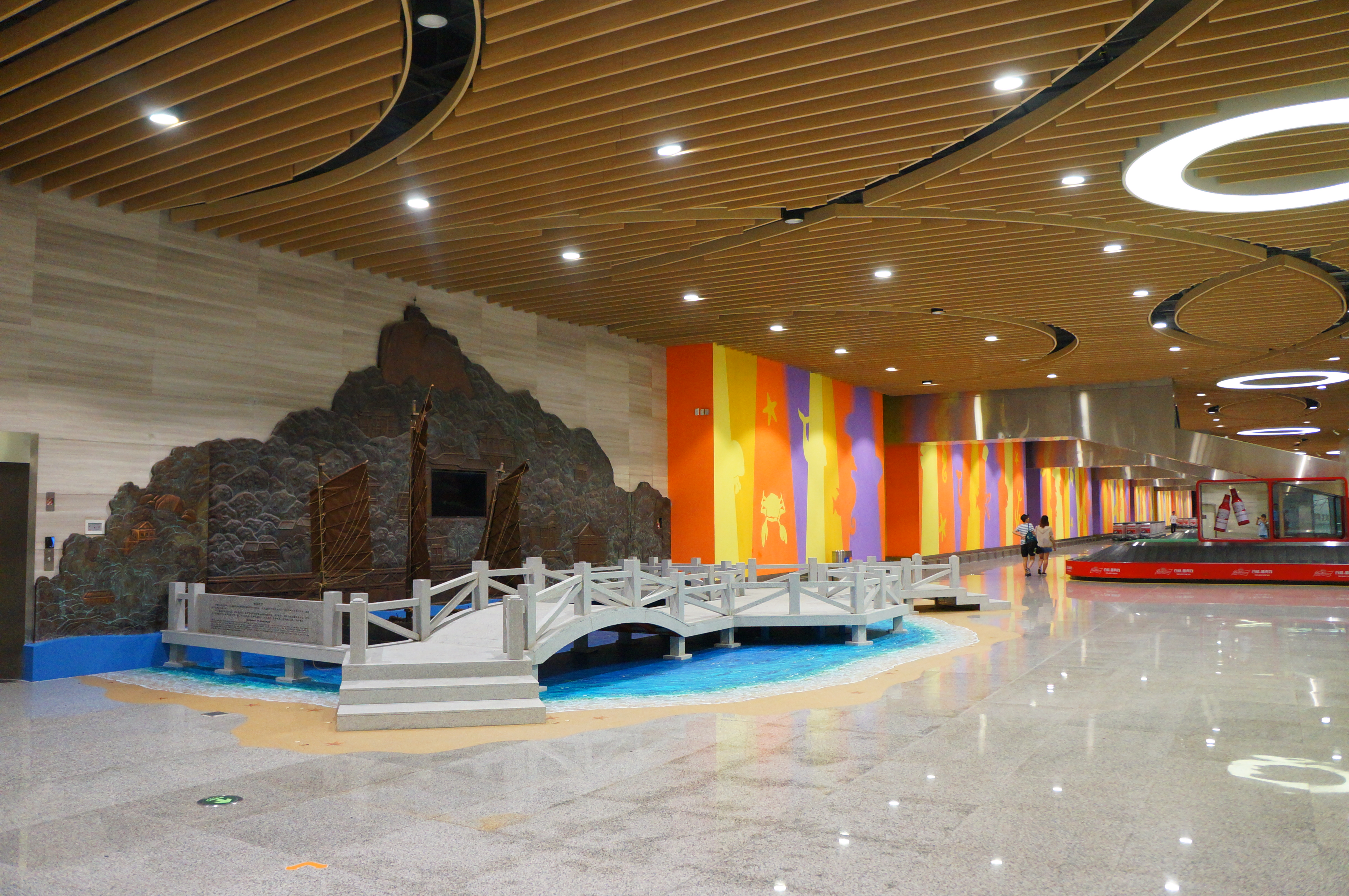 201708 Baggage Claim Area of XMN T4, we are the last flight that lands on XMN that night.